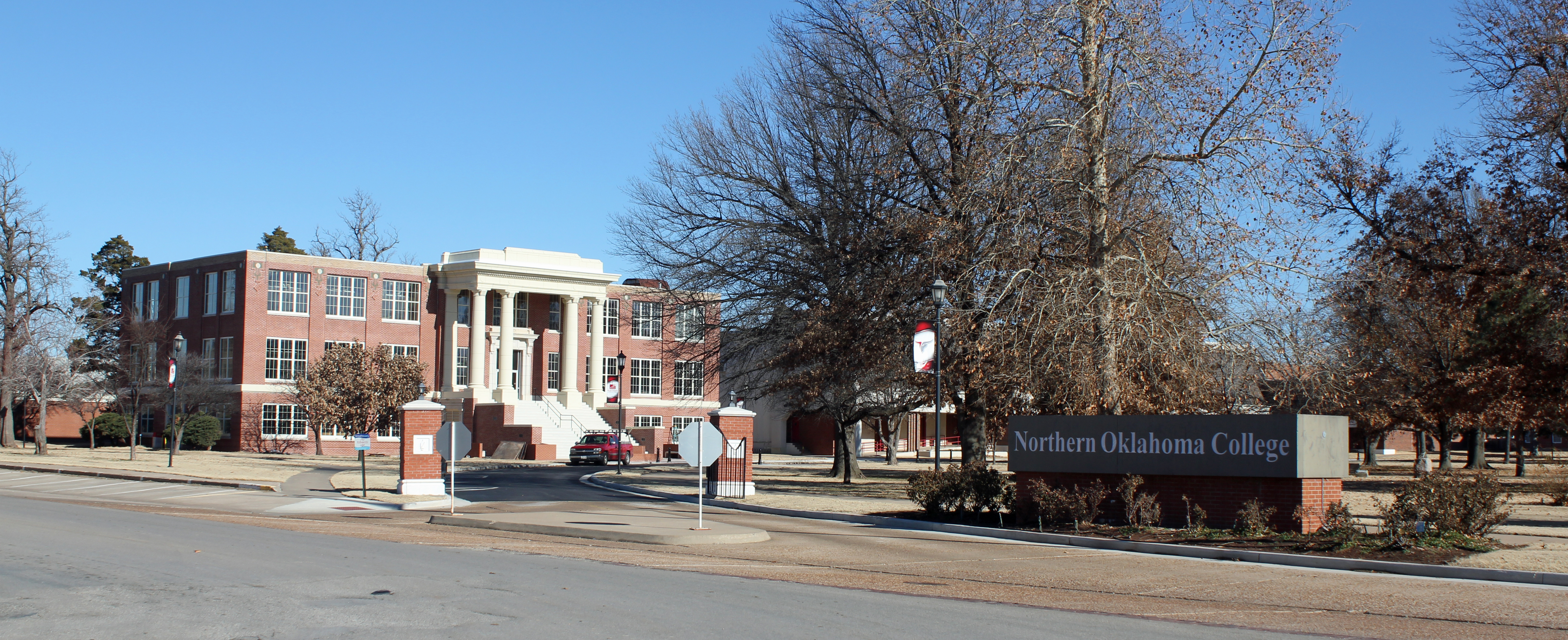 A part of the Northern Oklahoma College campus in Tonkawa, Oklahoma. The picture was taken at the intersection of East Grand Avenue and North Jenkins Street.